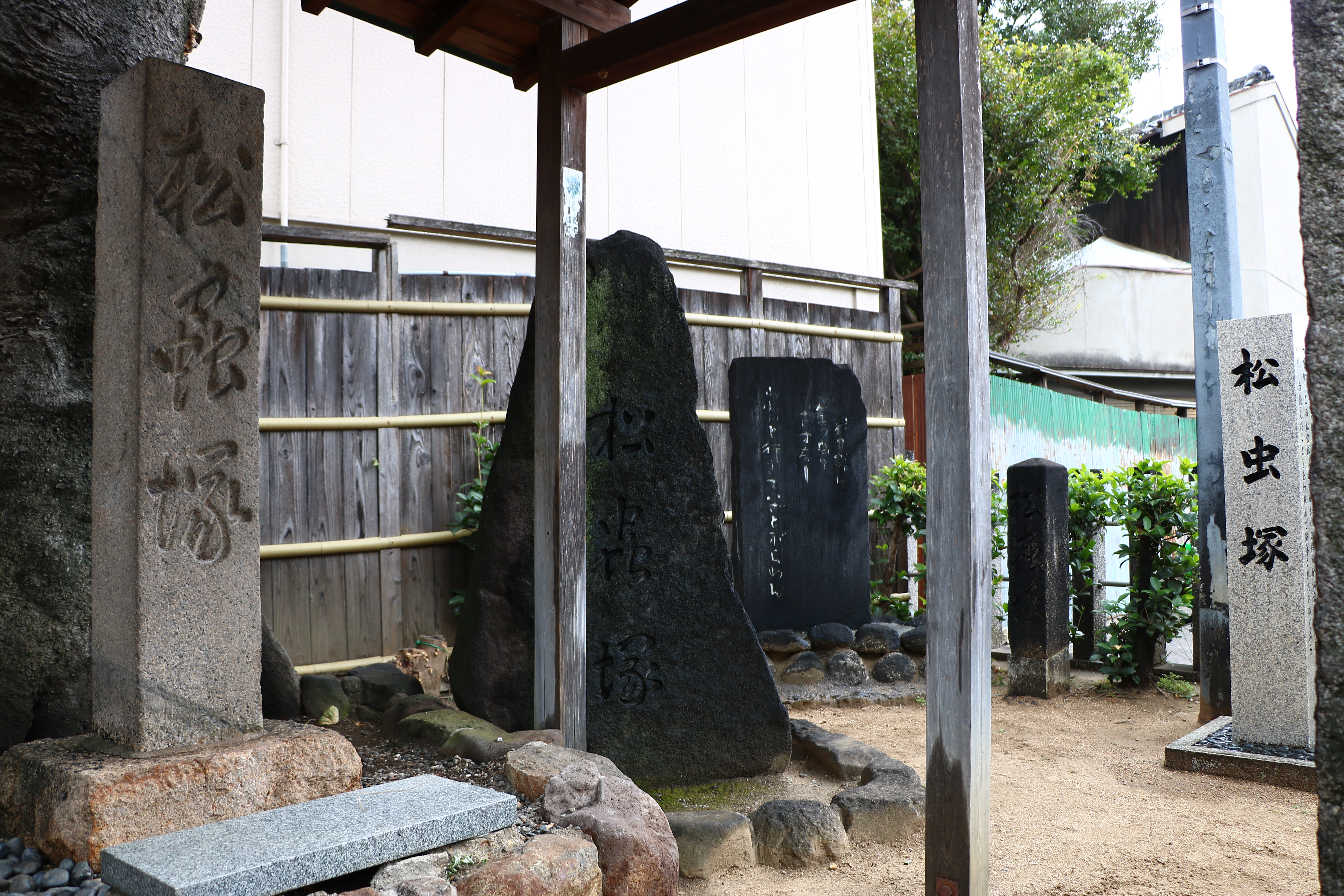 Matsumushi-zuka.Historic Site.